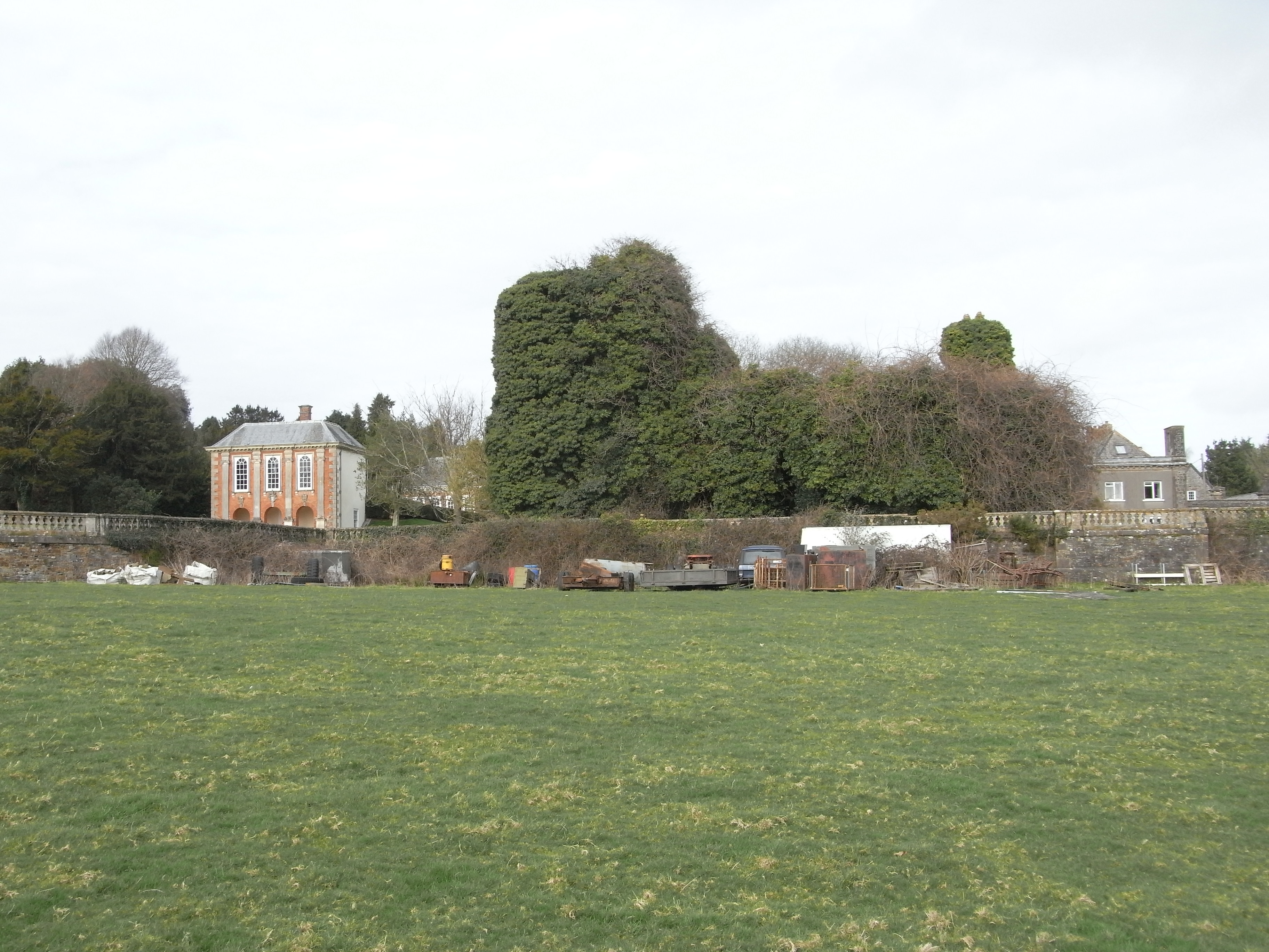 Ivy covered ruins of Stevenstone House, St Giles in the Wood, Devon, built 1868-72. To the left are the Palladian Library Room and behind it the Orangery, built c. 1715-30.